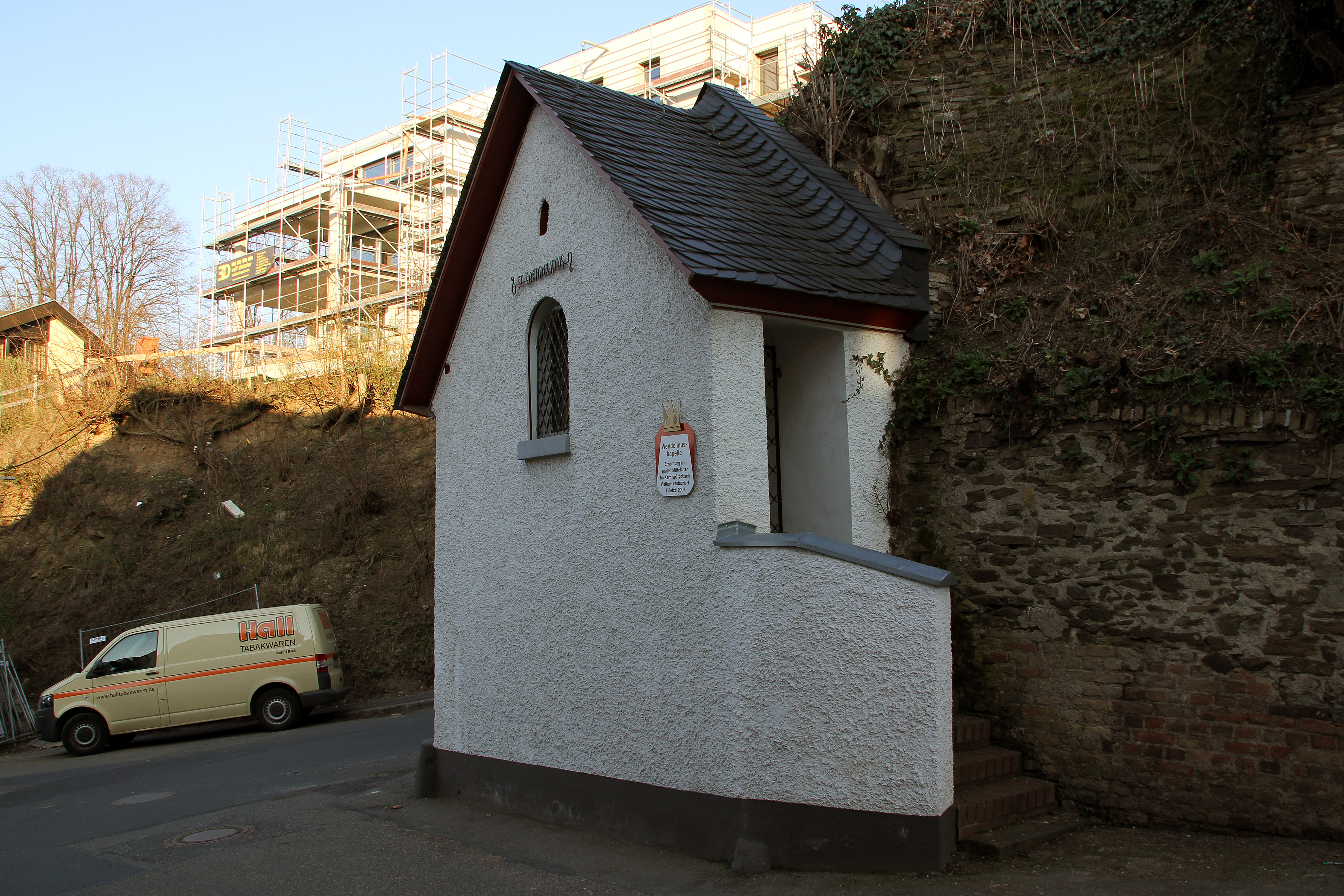 Wendelin chapel in Koblenz